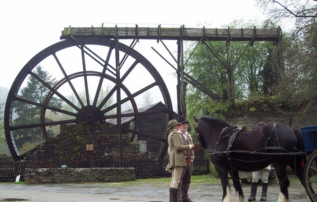 Morwellham Quay